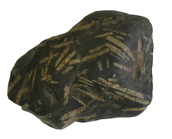 Porphyry, aphanitic groundmass, plagioclase phenocrysts.Diabase